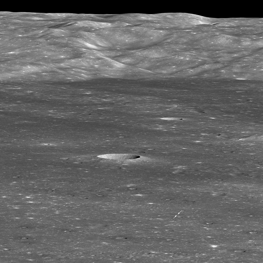 Arrows indicate position of Chang'e 4 lander on the floor of Von Kármán crater. The sharp crater behind and to the left of the landing site is 3900 meters across (12,800 feet) and 600 meters (1970 feet) deep. Image was shrunk by more than a factor of ten. On 3 January 2019 the Chinese spacecraft Chang'e 4 safely landed on the floor of Von Kármán crater (186 kilometer diameter, 116 miles). Four weeks later (30 January 2019), as LRO approached the crater from the east, it rolled 70° to the west to snap this spectacular view looking across the floor towards the west wall. Because LRO was 330 kilometers (205 miles) to the east of the landing site, the Chang'e 4 lander is only about two pixels across (bright spot between the two arrows), and the small rover is not detectable. The massive mountain range in the background is the west wall of Von Kármán crater, rising more than 3000 meters (9850 feet) above the floor. The crater at center is now known as Zhinyu.